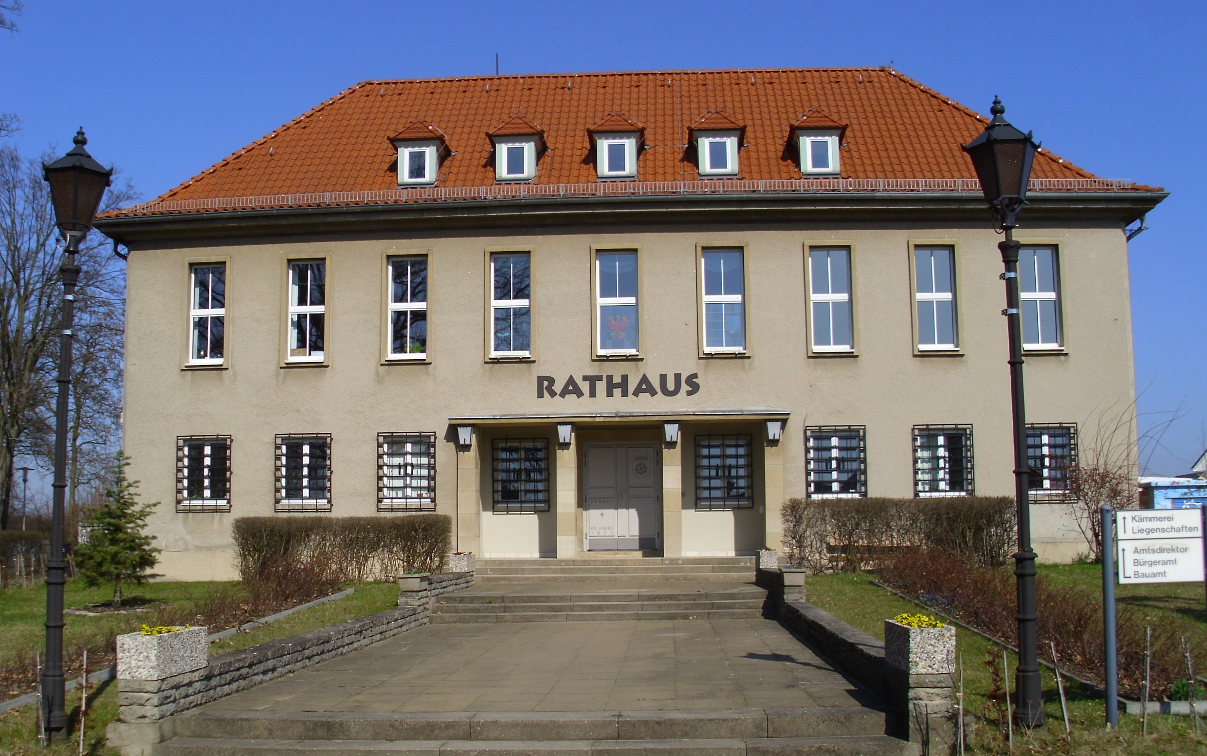 Town hall of the village Mühlenbeck